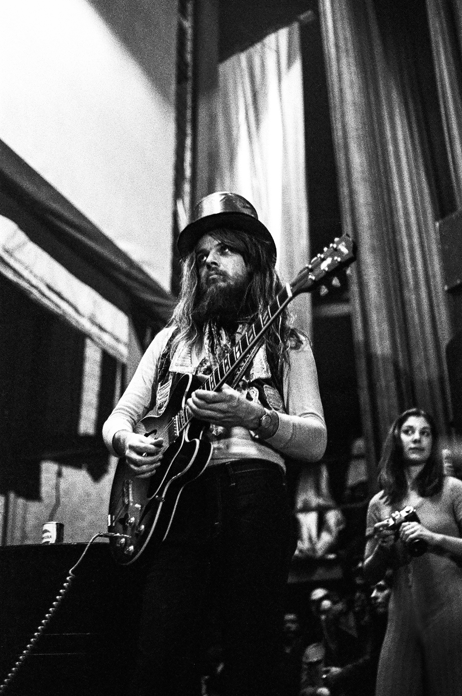 B&W Photograph of Linda Wolf with camera on stage photographing Leon Russell in Detroit Michigan during the Joe Cocker Mad Dogs & Englishmen tour.